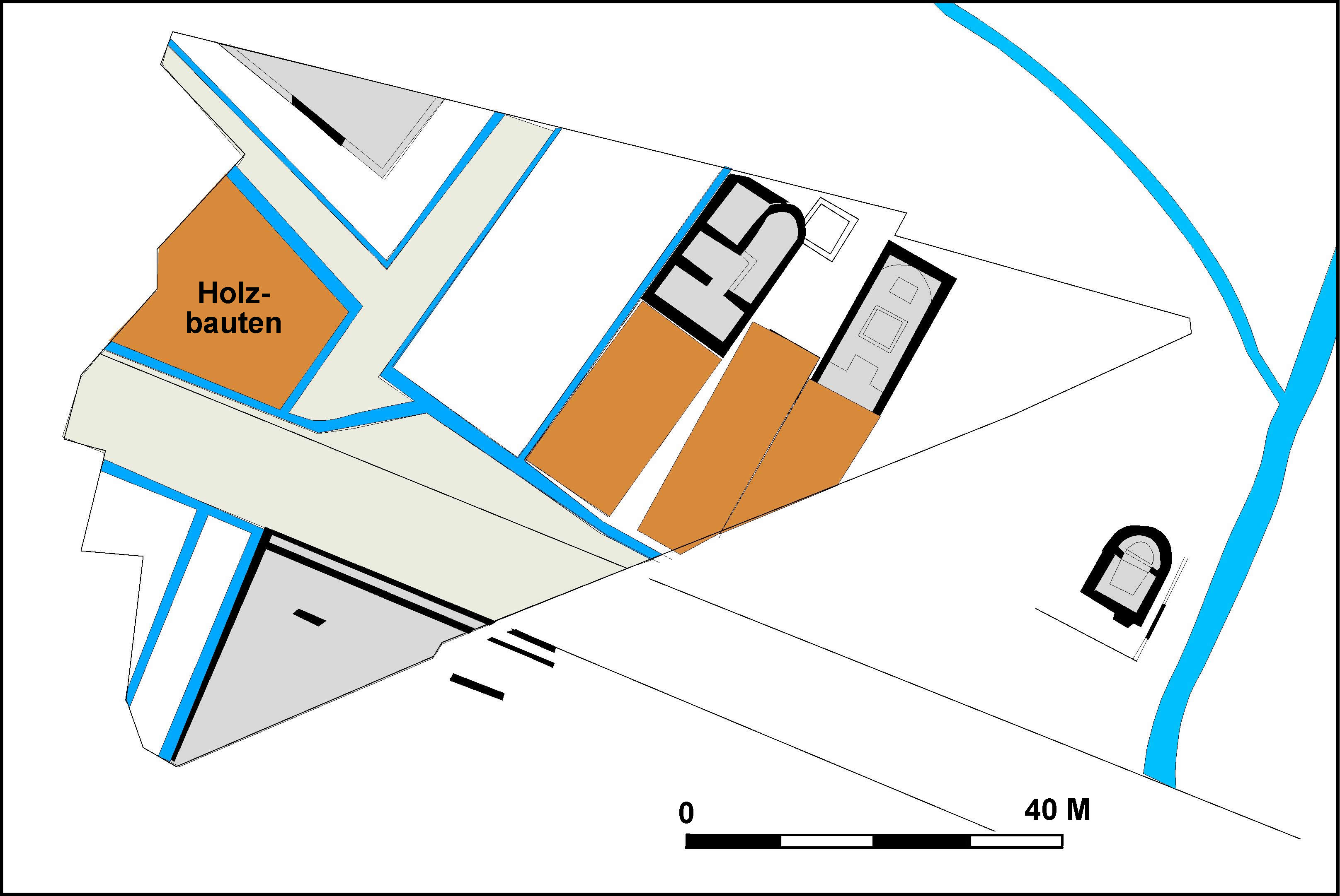 Roman London, excavated part